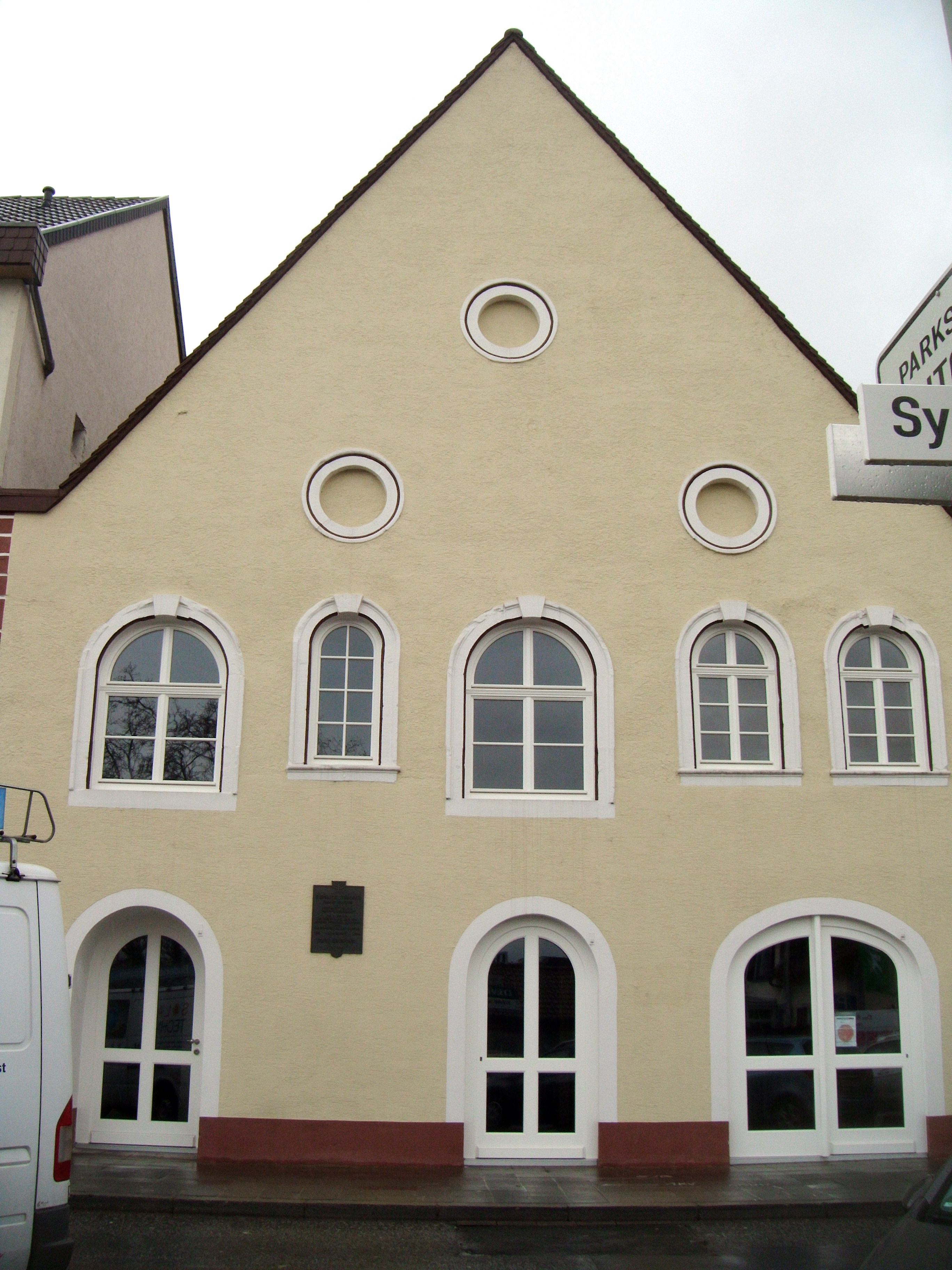 Grünstadt Synagoge